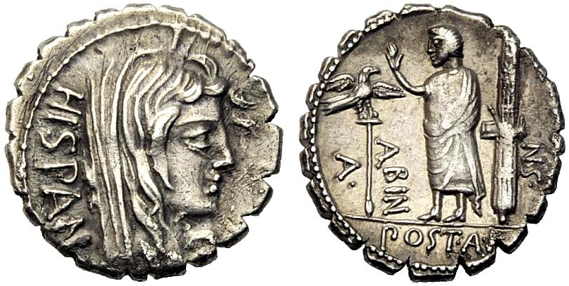 A. Postumius A.f. Sp.n. Albinus, Denarius serratus, Rome, 81 BC, AR, Veiled head of Hispania r.; behind, HISPAN, Rv. Togate figure with r. hand raised, standing r. between legionary eagle and fasces with axe; around, A POST A F S N ALBIN. Crawford 372/2